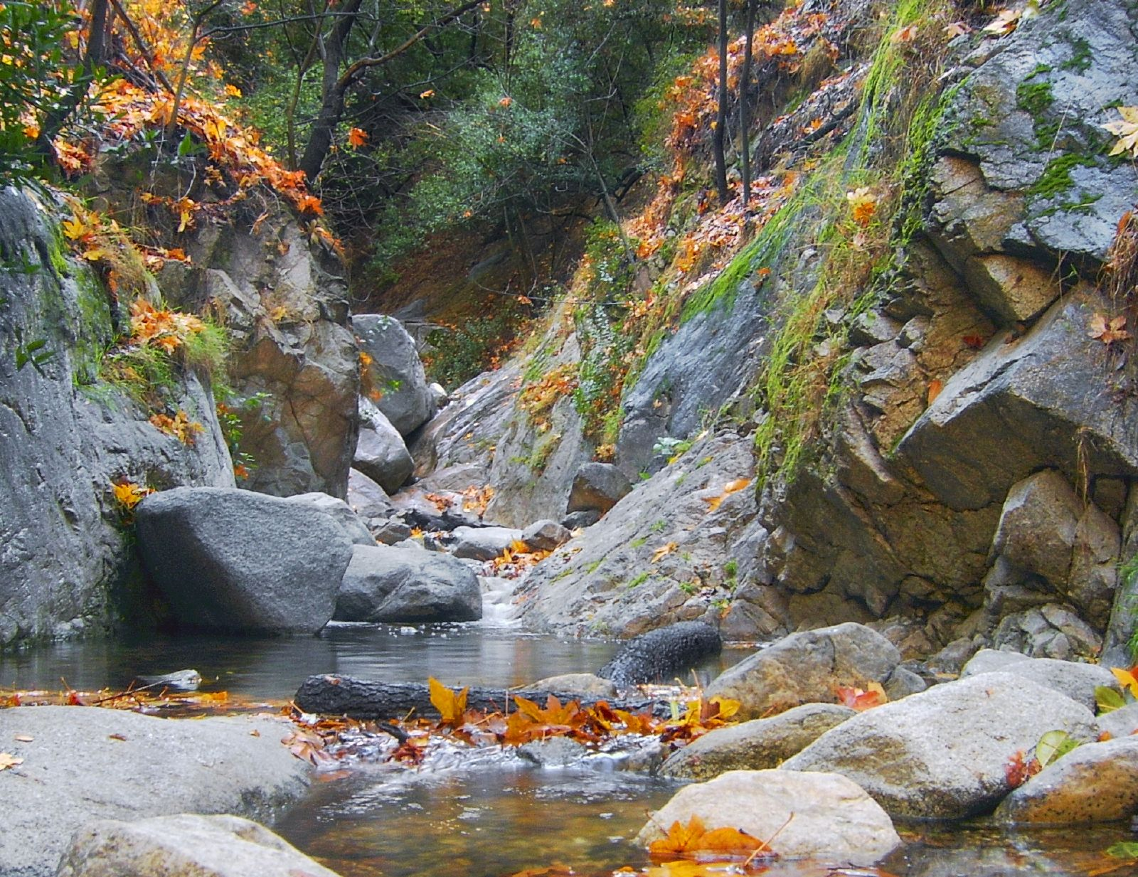 San Gabriel River headwaters creek in the Mount Wilson area, San Gabriel Mountains, Southern California, Western United States.